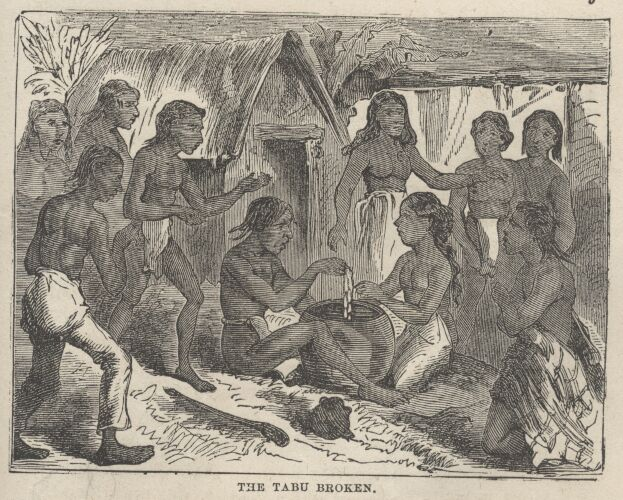 Illustrations de Roughing It, 1872.